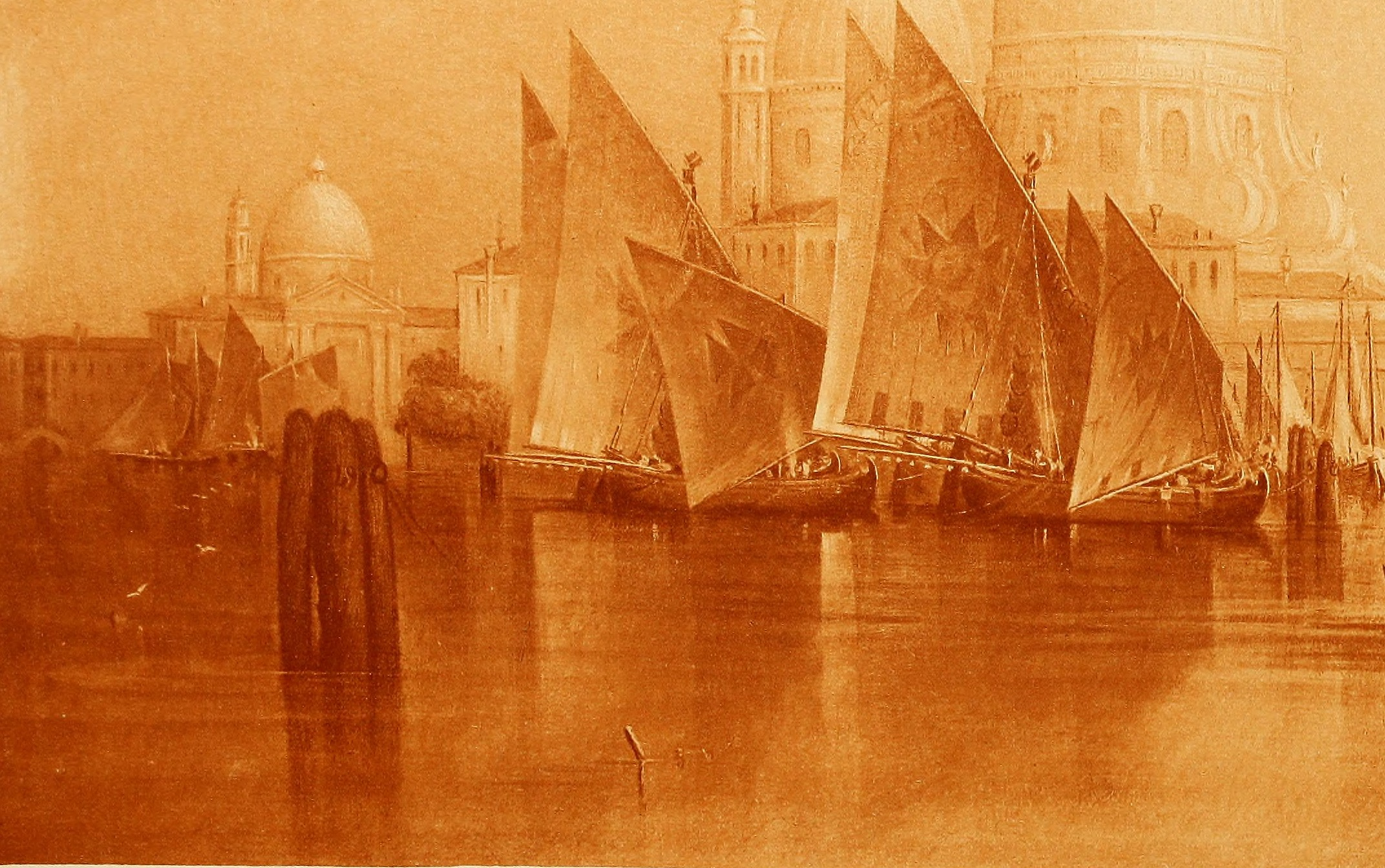 Title: American art and American art collections; essays on artistic subjects Year: 1889 (1880s) Authors: Montgomery, Walter Subjects: Art Artists Art Publisher: Boston, E.W. Walker & co Text Appearing Before Image: L. ^ - -r~yS- Text Appearing After Image: The Grand Canal, Venice. PHOTOGRAVURE FROM THE ORIGINAL PAINTING J. ROLLIN TILTON. In this scene is depicted a most interesting view of one of the most romantic cities inEurope. In the foreground are the fishing-boats with their highly decorated sails, so often shown inVenetian paintings. Behind them looms up the majestic dome of the church of Santa Maria dellaSalute on the Grand Canal, which is shown on the right of the picture, just beyond the entrance to the Dogana, or Custom House, which supports the great ball on which is poised the figure of Fortune.This is the focal point of the commerce of a city which was once the commercial centre of theworld.